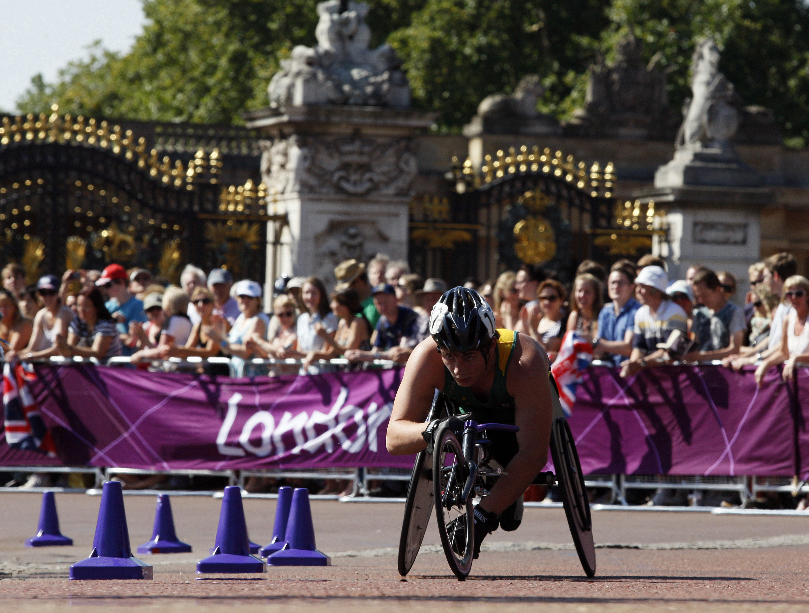 Photograph of Australian Paralympic team member Nathan Arkley at the 2012 Summer Paralympic Games in London